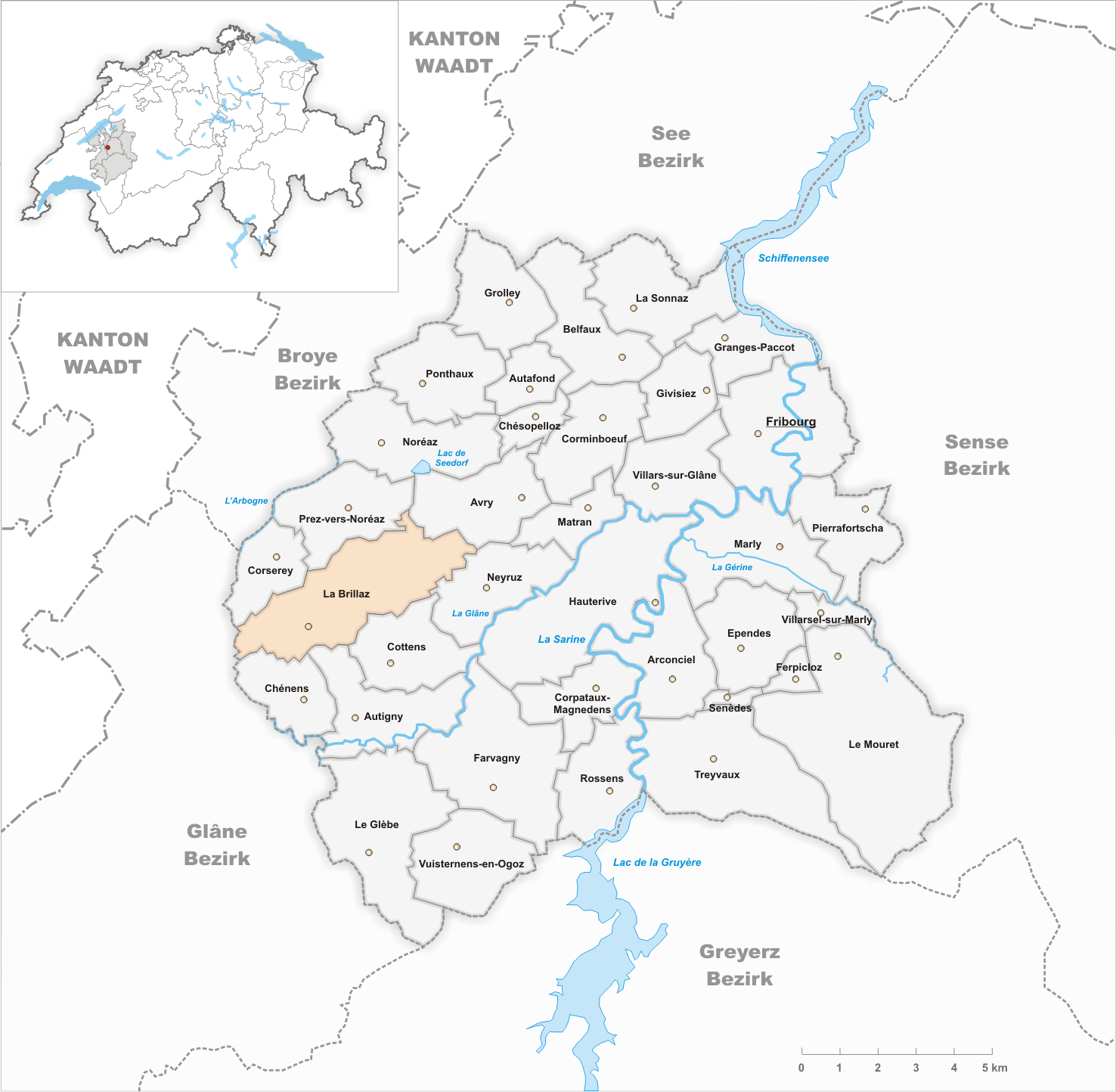 Municipality La Brillaz